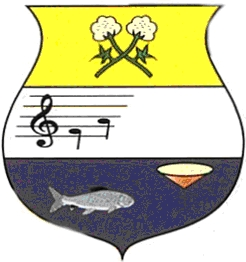 Coat of arms of St John Sabugi - Rio Grande do Norte - Brazil